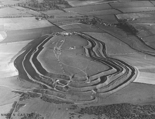 Atlas of Hillforts 3598 An aerial view of Maiden Castle in Dorset from the west. The Ashmolean Museum's description is "Excavations taken from the west end on 16 Oct 1937 (Album Ref 14, 69)".